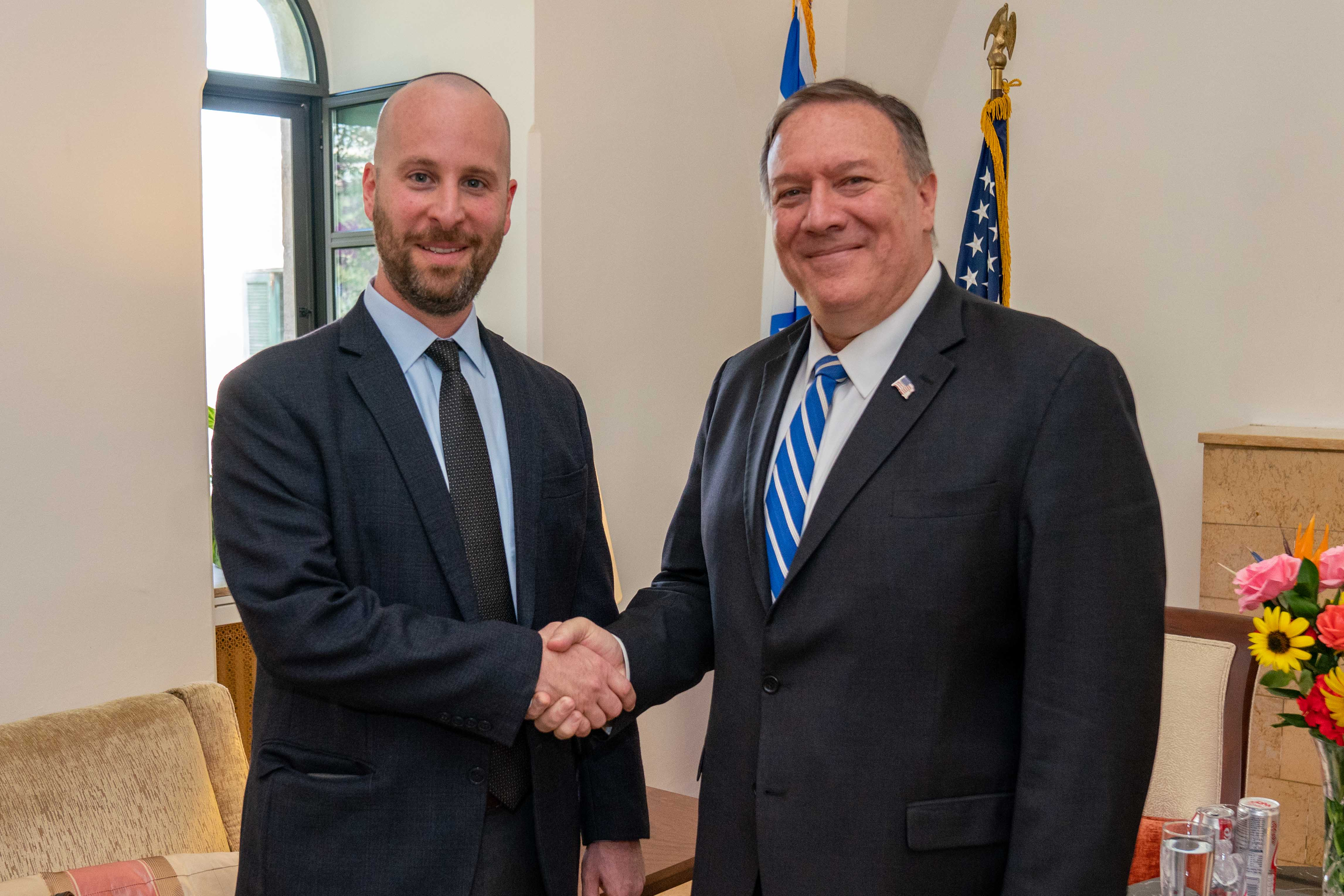 U.S. Secretary of State Michael R. Pompeo participates in an interview with Yaakov Katz from the Jerusalem Post in Jerusalem on October 18, 2019. [State Department Photo by Ron Przysucha/ Public Domain]